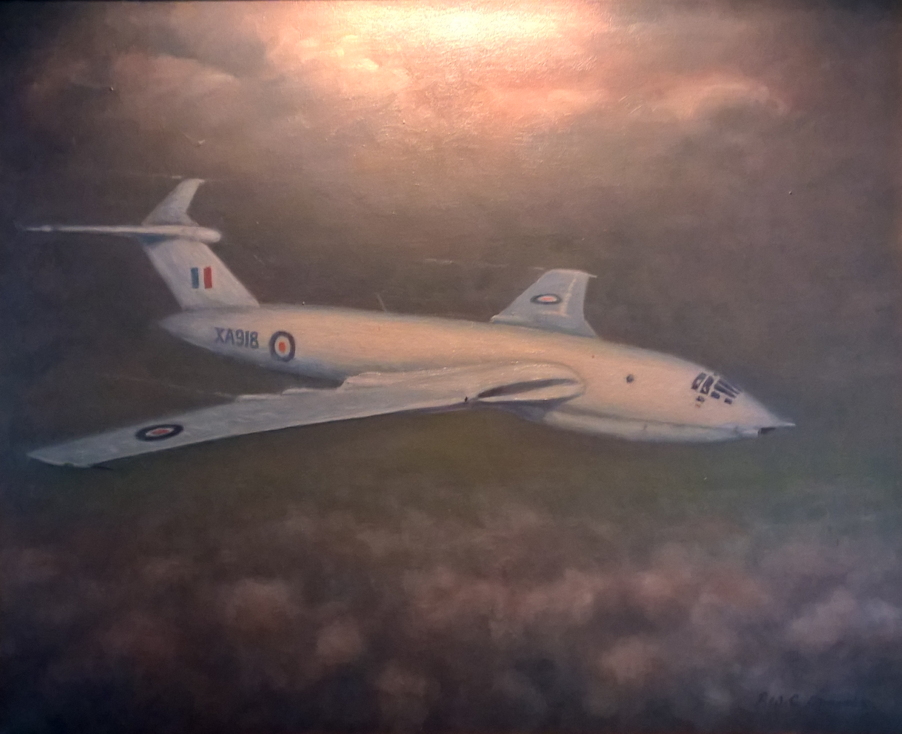 Painting of prototype Handley Page Victor no. XA918, by Peter Coombs